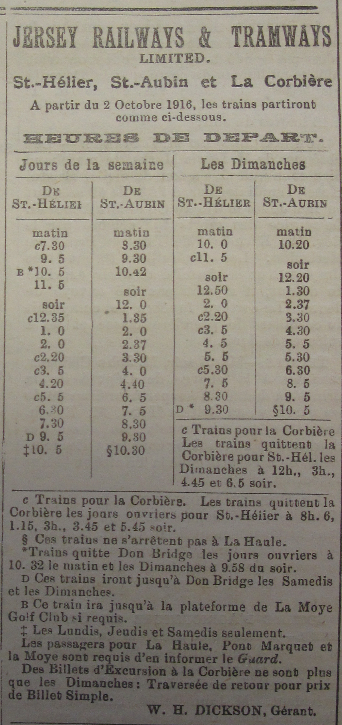 1916 railway timetable of the Jersey Railway, in newspaper La Nouvelle Chronique de Jersey, 1916, Jersey This work is in the public domain in its country of origin and other countries and areas where the copyright term is the author's life plus 70 years or less. You must also include a United States public domain tag to indicate why this work is in the public domain in the United States. Note that a few countries have copyright terms longer than 70 years: Mexico has 100 years, Jamaica has 95 years, Colombia has 80 years, and Guatemala and Samoa have 75 years. This image may not be in the public domain in these countries, which moreover do not implement the rule of the shorter term. Côte d'Ivoire has a general copyright term of 99 years and Honduras has 75 years, but they do implement the rule of the shorter term. Copyright may extend on works created by French who died for France in World War II (more information), Russians who served in the Eastern Front of World War II (known as the Great Patriotic War in Russia) and posthumously rehabilitated victims of Soviet repressions (more information). This file has been identified as being free of known restrictions under copyright law, including all related and neighboring rights.